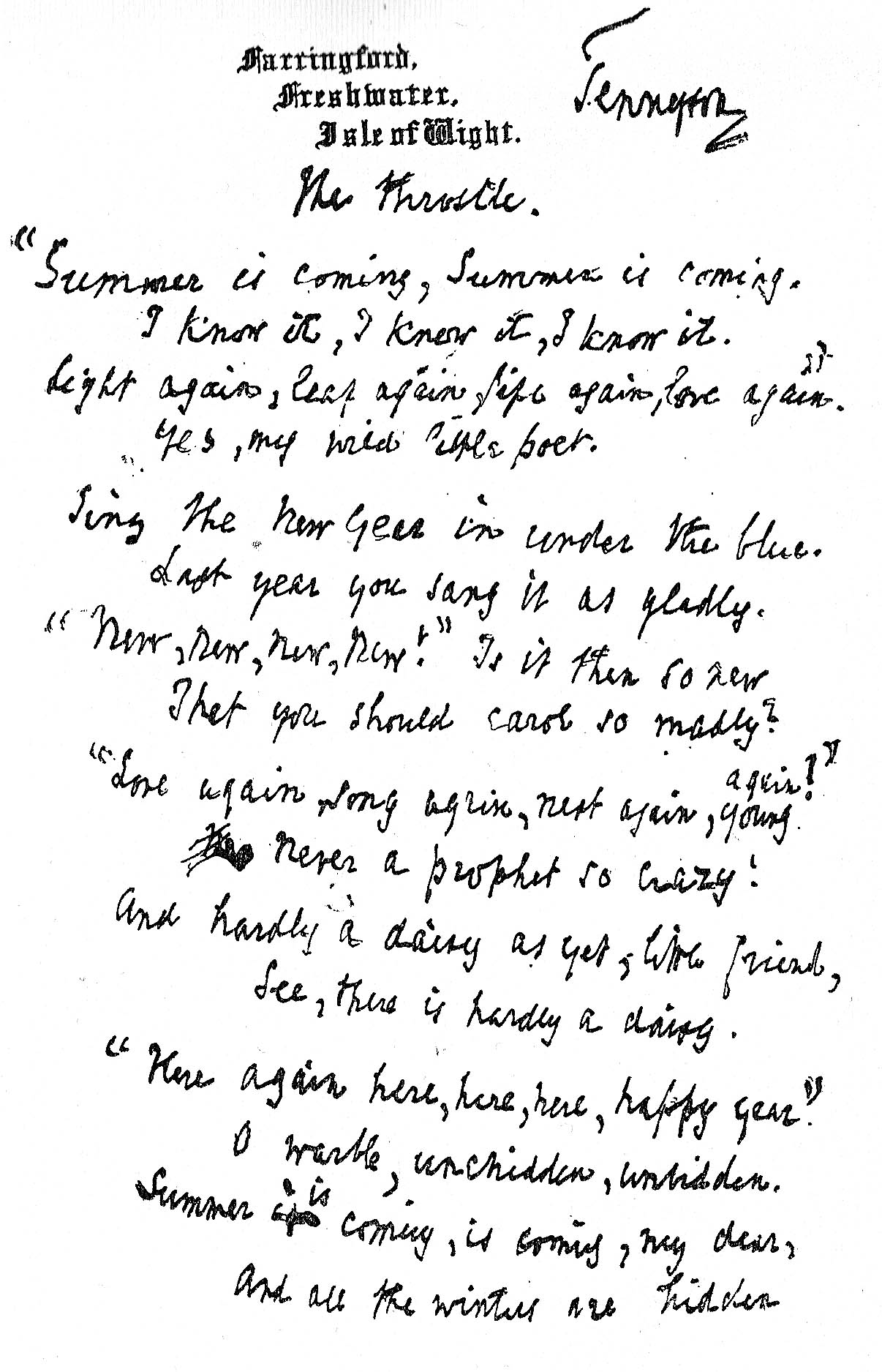 The manuscript to the poem "The Thrustle" by Lord Tennyson